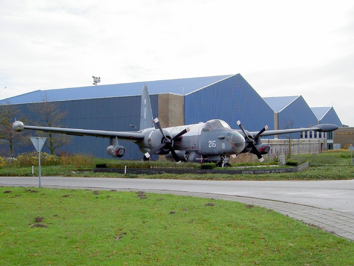 Lockheed Neptune P2V-7 - Royal Netherlands Navy V 216 Valkenburg Air Base (LID - EHVB), 22 November 2004.